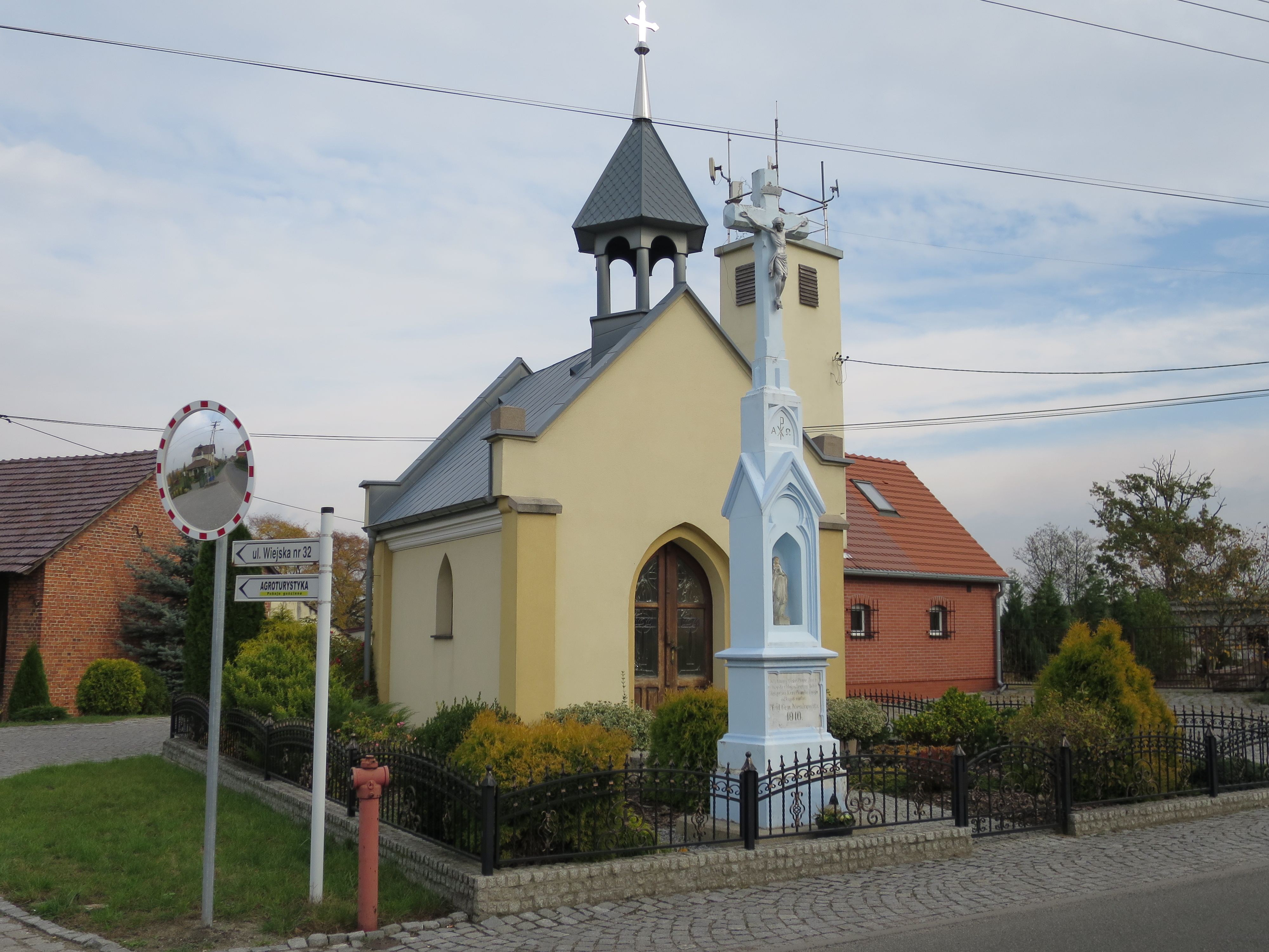 This photo was taken during Wikiexpedition 2016 set up by Wikimedia Polska Association.You can see all photographs in categories Wikiekspedycja Opolska 2016 (Polish part) and Mediagrant III:Wikiexpedice Slezsko (Czech part).